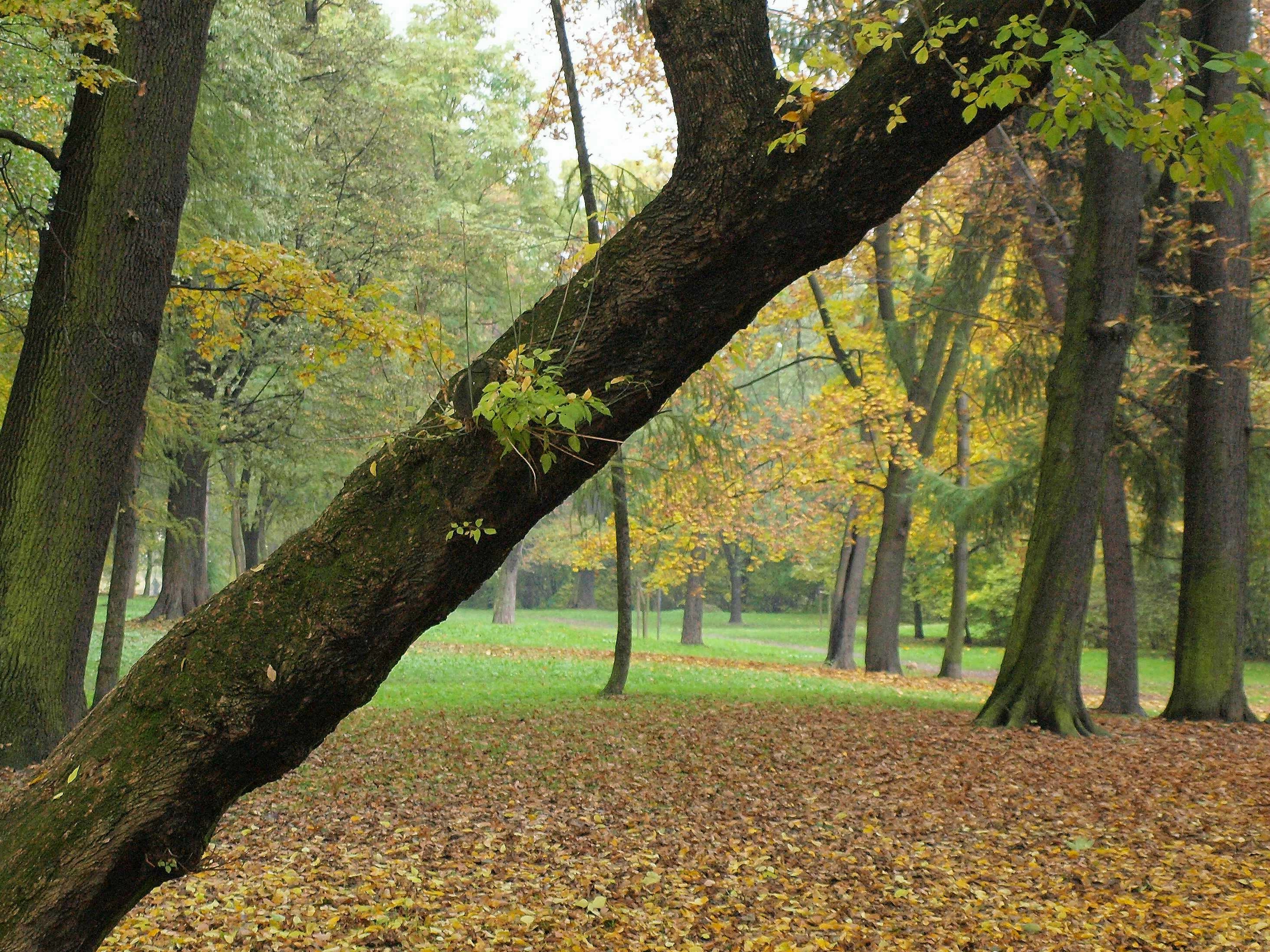 Cracow, Jerzmanowski's Park